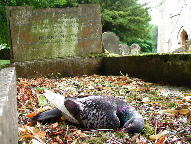 Rise and fall Dead feral pigeon on one of the graves in the churchyard at All Saints, Rise. There was a church at Rise by 1221 but older church buildings here seem to have suffered centuries of neglect. In the 19th century the Church of All Saints, formerly St Mary's, was demolished and the current one built by local landowner Richard Bethell to designs by R D Chantrell. According to a plaque in the porch the first stone of the building was laid on 1st July 1844 and the church was consecrated on 12th November 1845. Some 12th to 14th century stonework was reused in the building and the churchyard was also extended in 1845. More information on the history of Rise and its church can be found at British History Online.